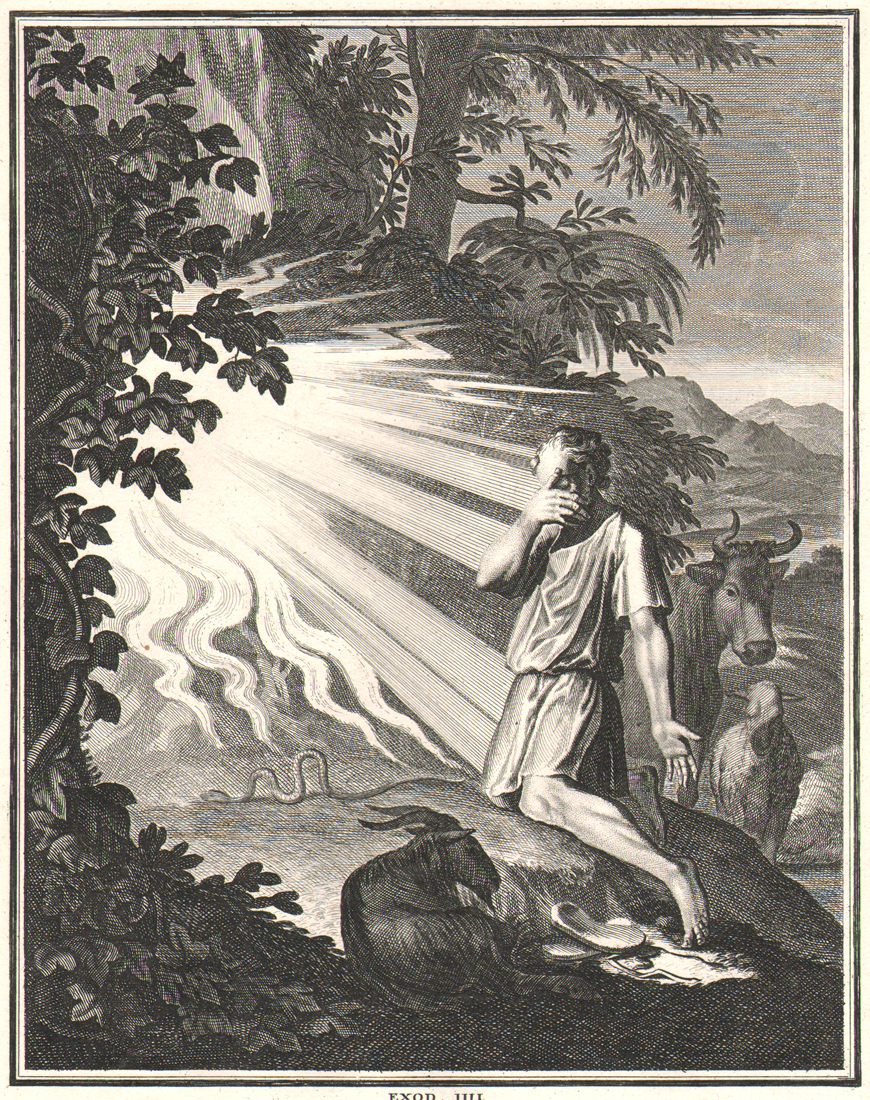 Jan Luyken (1649-1712), Moses and the Burning Bush, Etching, 1697, 31X21 cm.